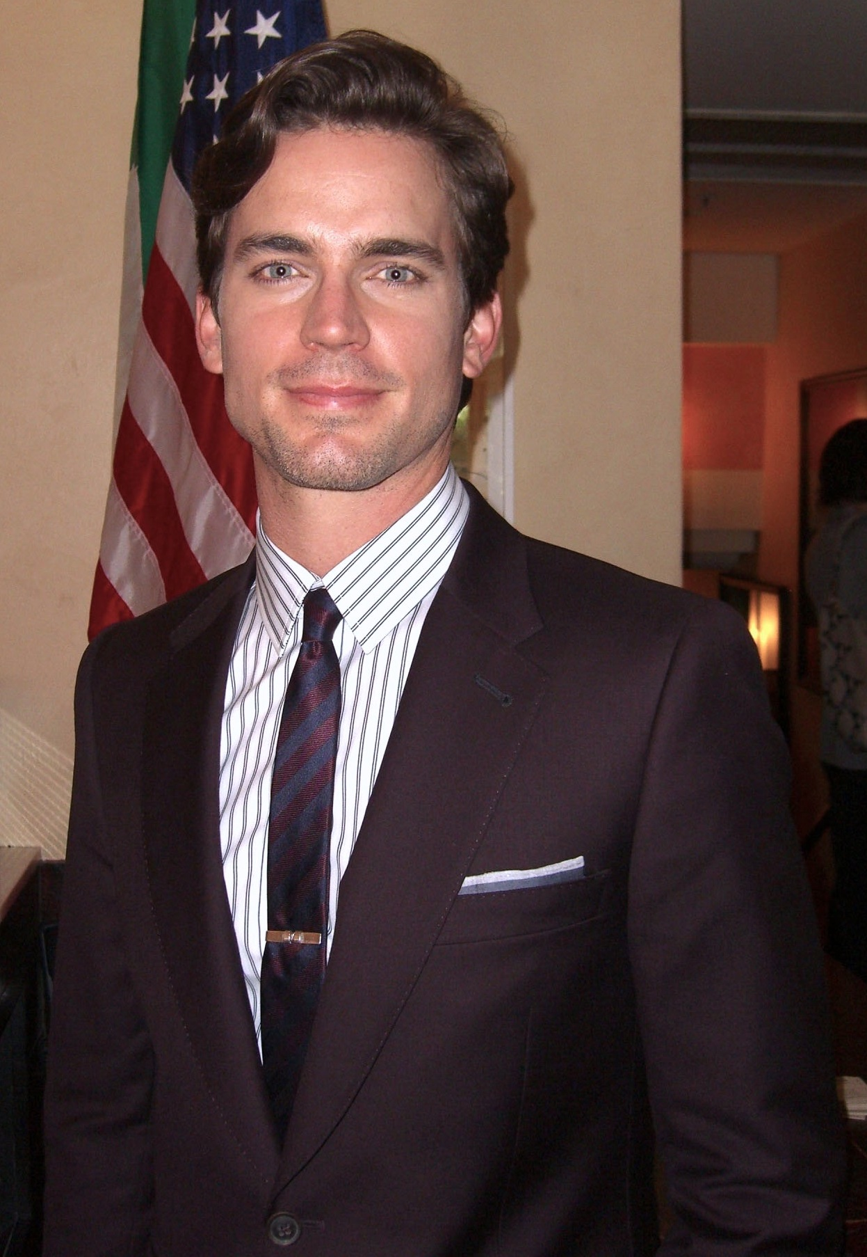 Actor Matthew Bomer during the June 7, 2011 production of "On the Fence", the ninth episode of the third season of the American TV series White Collar at 10 Downing, a restaurant in Manhattan's West Village. Photographed by Luigi Novi. This photo is not in the public domain. It may, however, be used, modified and published for any purpose, free of charge, only if the photographer is properly credited, either by linking the photograph to this page, or with an easily visible credit to the photographer placed near the photo in each instance in which it is used. (See licensing information below.) Publication of this photo without this proper attribution constitutes copyright infringement. If you have any questions, you can contact me on my Wikipedia Talk Page.